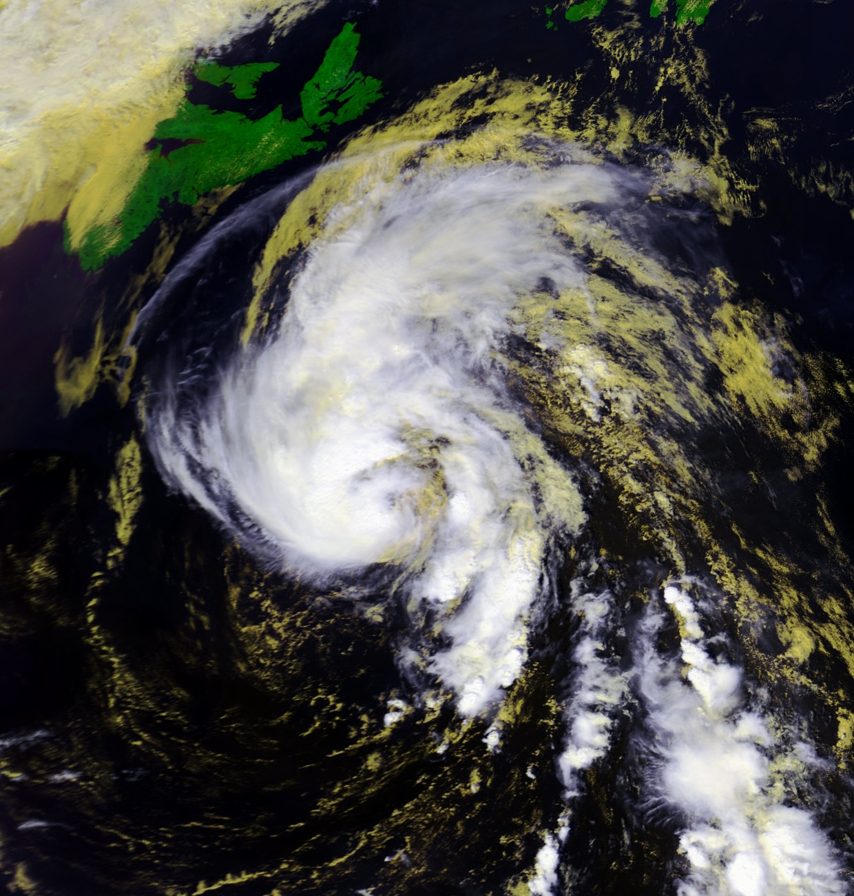 Tropical Storm Dean near peak intensity on August 27 at 1644 UTC. This image was produced from data from NOAA-16, provided by NOAA. Maximum sustained winds were around 65 to 70 mph at this time.